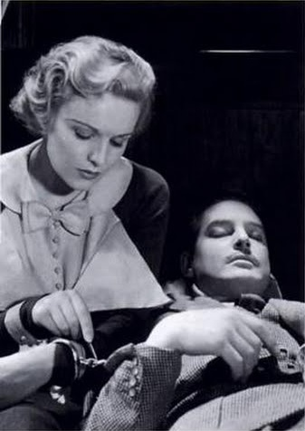 Madeleine Carroll & Robert Donat still of the 1935 film The 39 Steps, director: Alfred Hitchcock